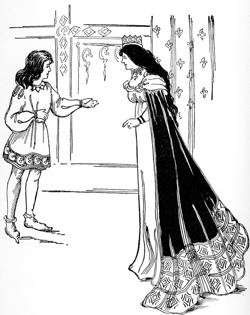 Drawing of Gareth and his mother Queen Bellicent of Orkney, from the story "Gareth and Lynette" from Stories from Tennyson. Young Gareth is appealing to his protective mother to let him go serve King Arthur. In other stories, Queen Bellicent is called Morgause. Caption: "MOTHER IF YOU LOVE ME LISTEN TO A STORY I WILL TELL".